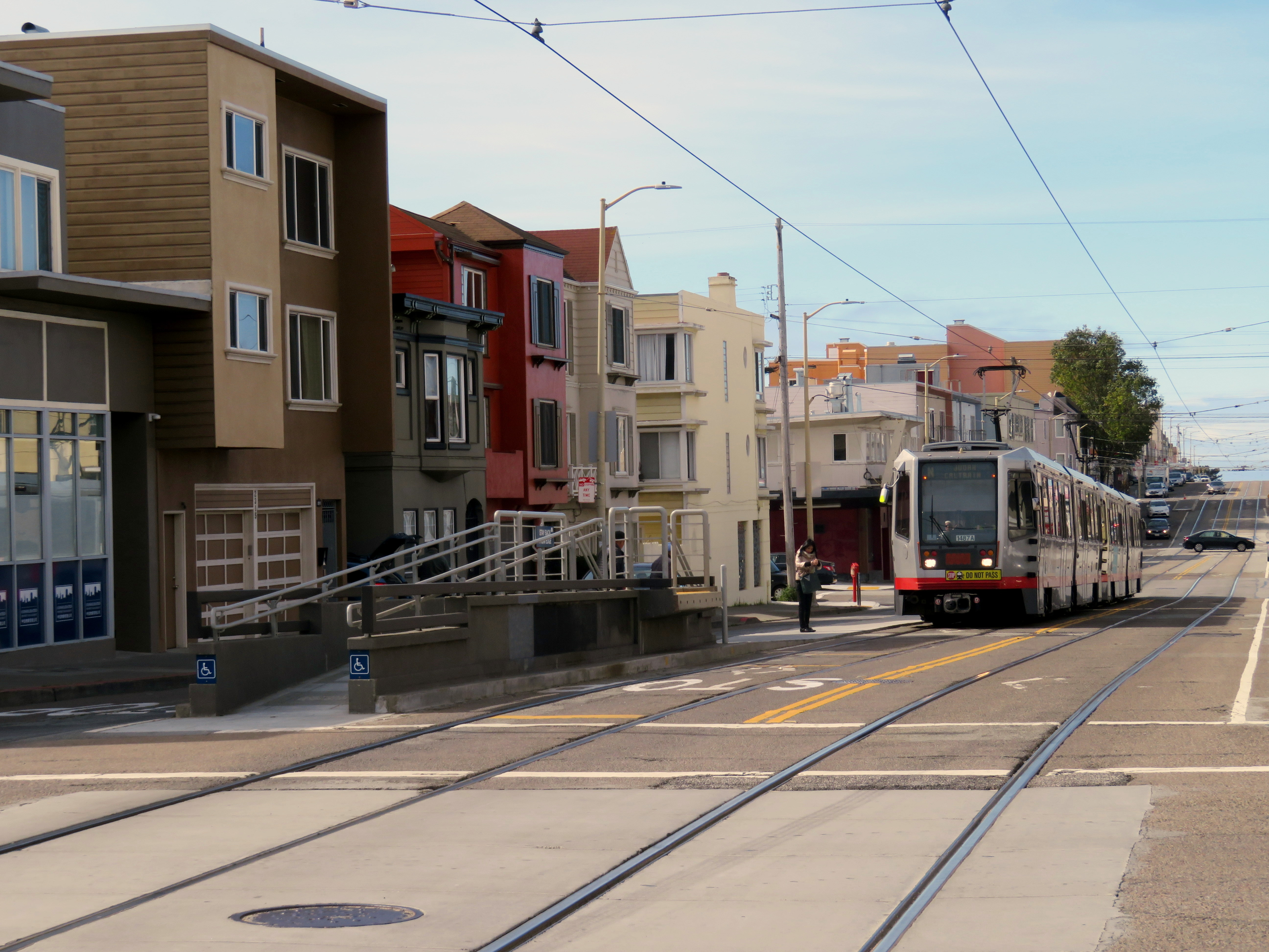 Inbound train at Judah and 28th Avenue station in February 2018